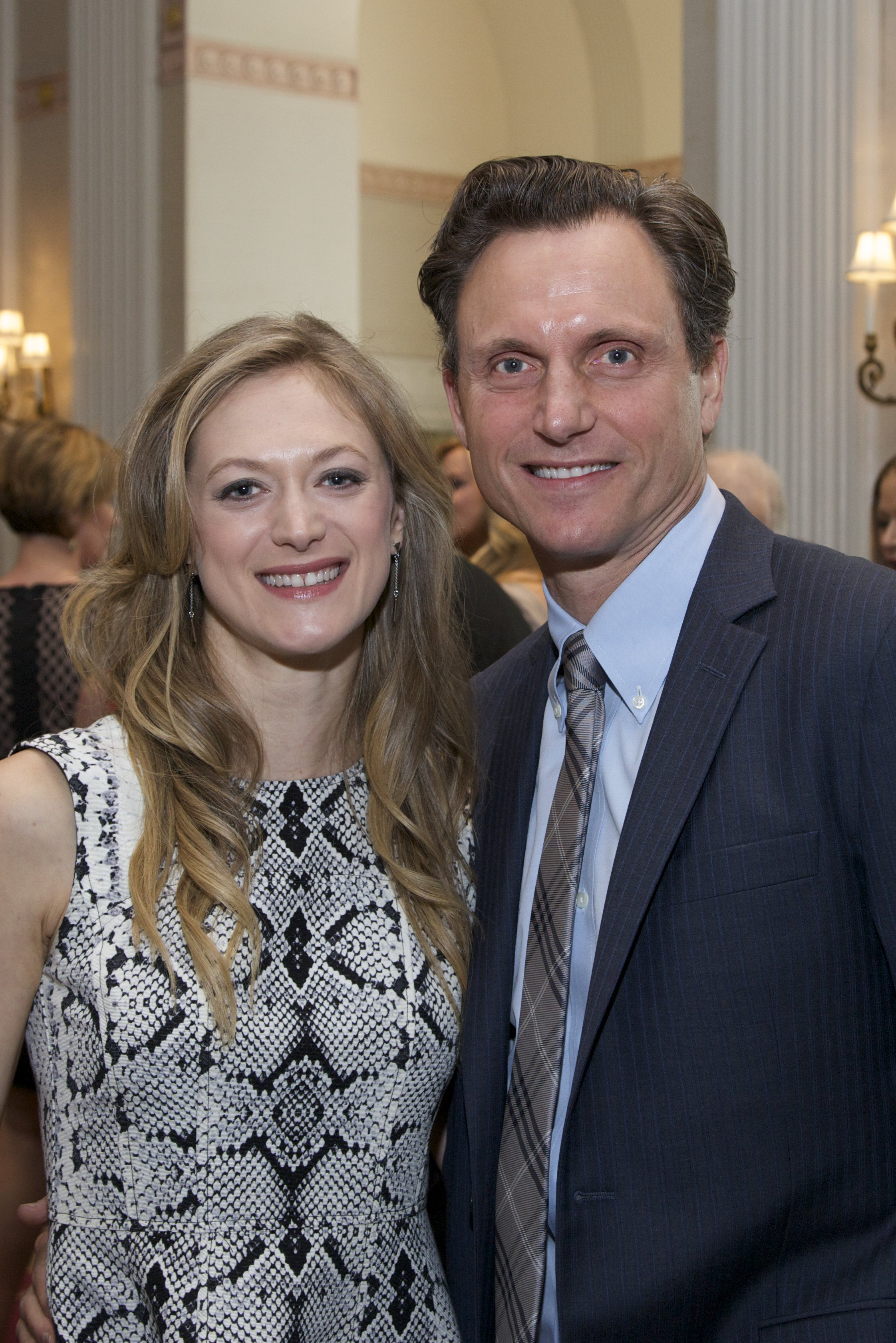 Marin Ireland and Tony Goldwyn at the reception for the 73rd Annual Peabody Awards.